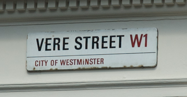 Vere Street road sign, off Oxford Street